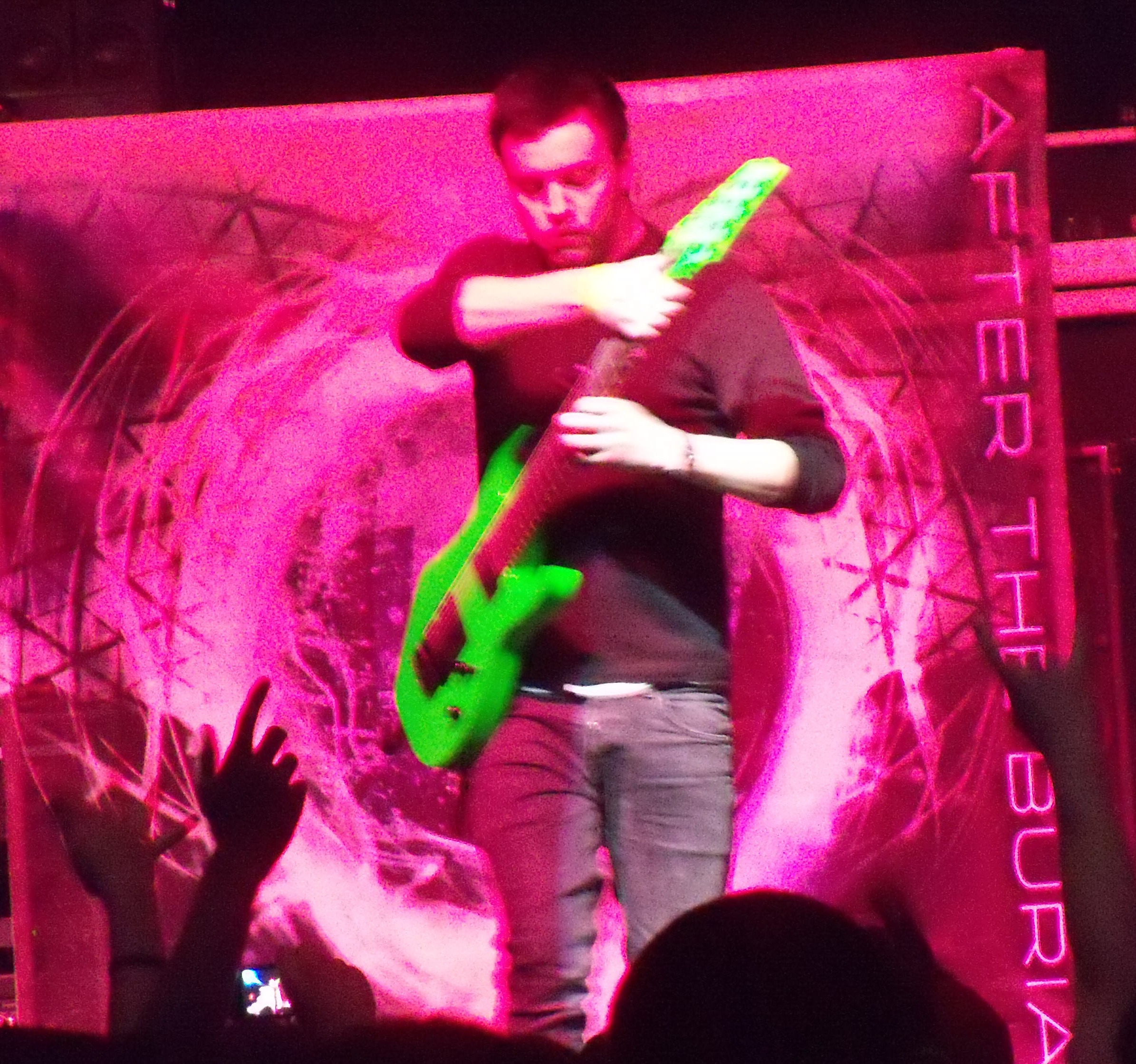 After the Burial guitarist, Justin Lowe performing at Metalfest V in Anaheim, California.